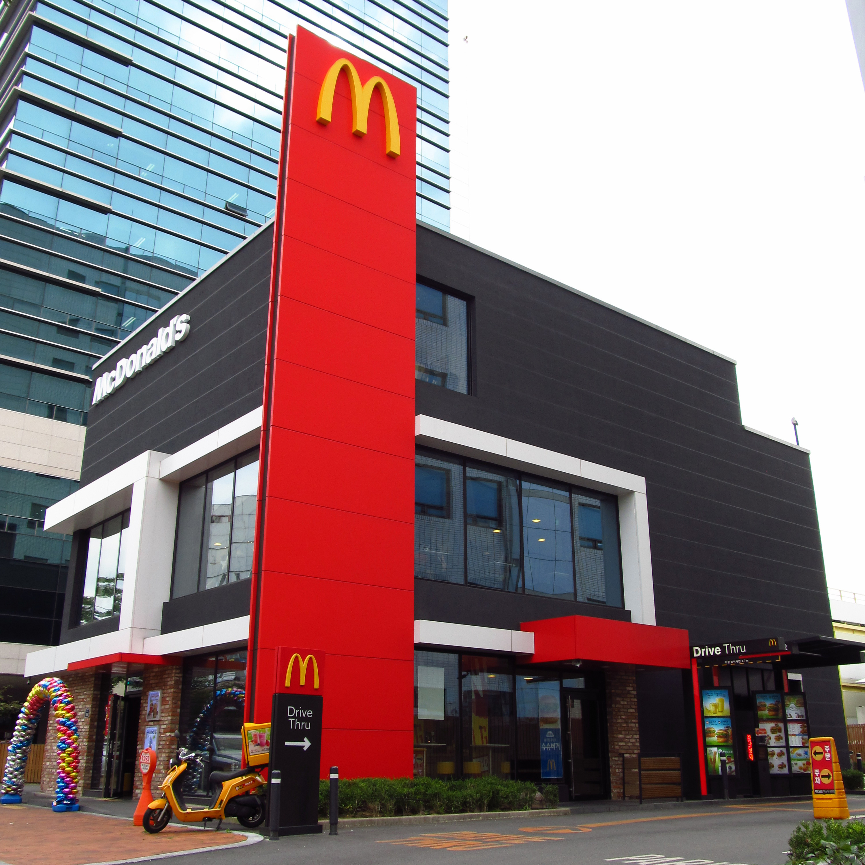 McDonald's store Daegu-Duryu DT branch, Daegu, Republic of Korea